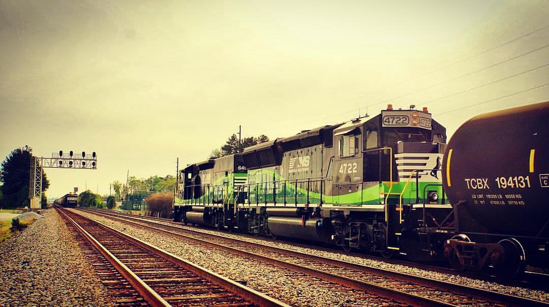 ns #train G74 with #Ecco units RP-M4C and GP33ECO